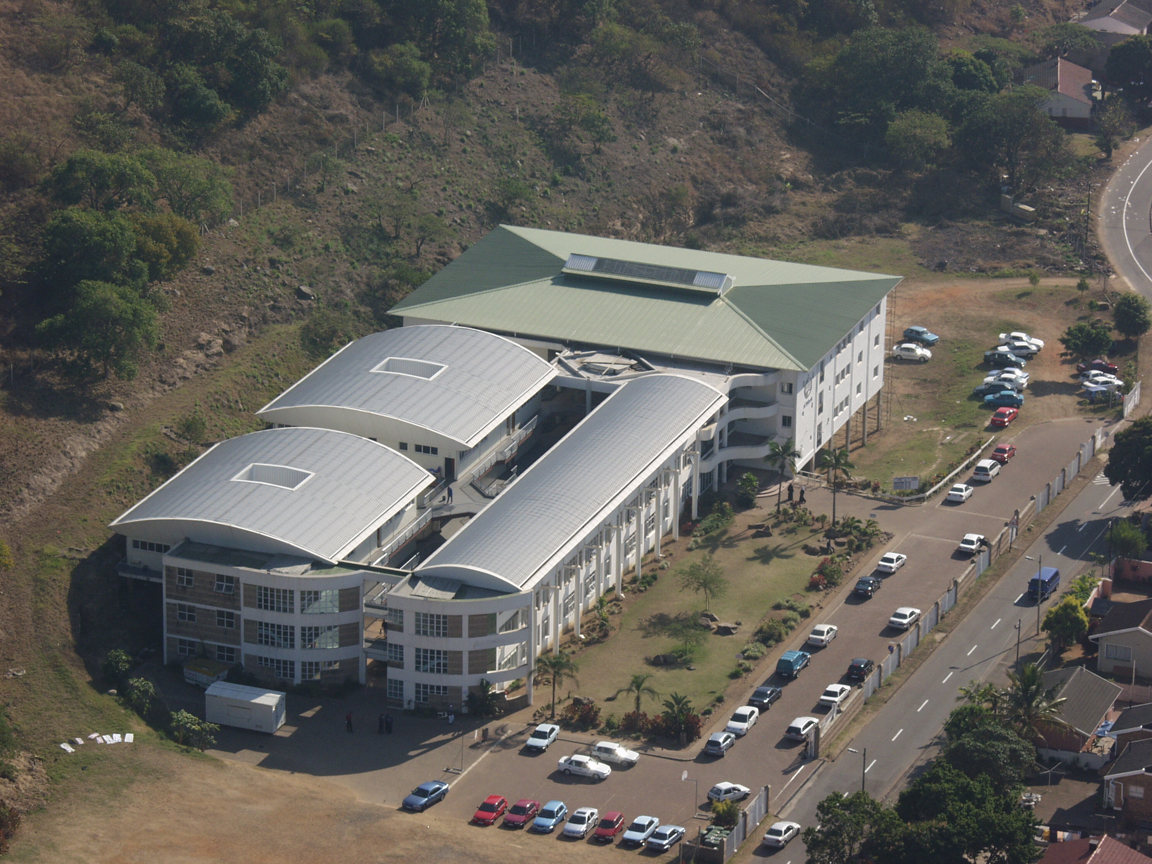 AFC Areal Photo